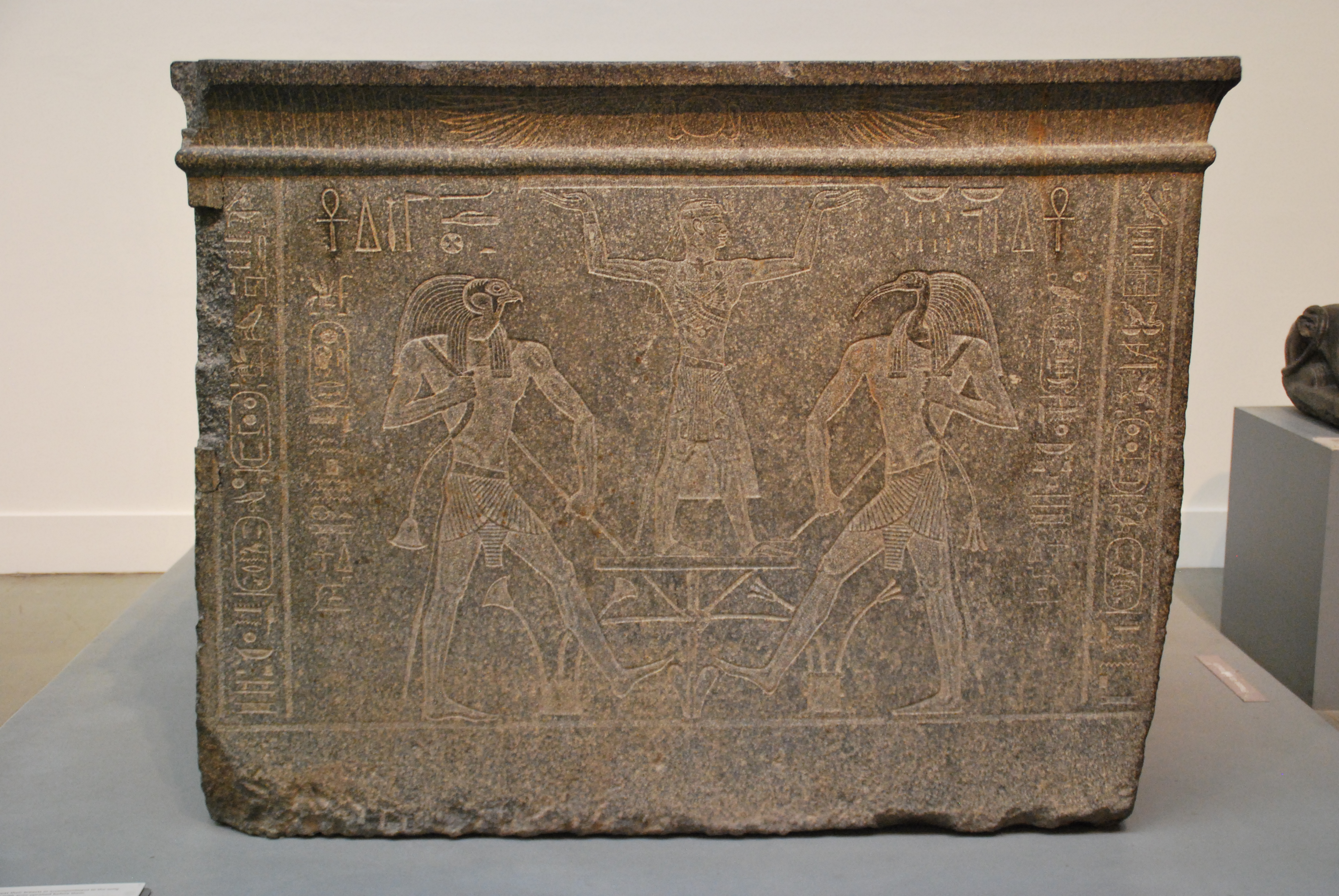 Stand for a boat shrine of Amun-Re from Jebel Barkal (Sudan); temple B 700; Nubian (Kushite), reign of Atlanersa, 653-643 B.C.; Black granite.